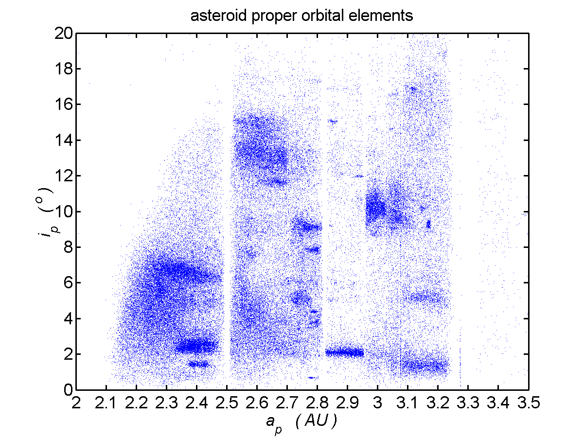 A diagram showing proper orbital elements (inclination ip vs. semi-major axis ap ) for numbered asteroids in the main belt. Clumps indicate the location of asteroid families, empty vertical regions at constant a are Kirkwood gaps. This diagram was created by me (Piotr Deuar) using data for 96944 minor planets, which was obtained from the AstDys site. Data was dated March 2005, calculation was by Z. Knezevic and A. Milani.